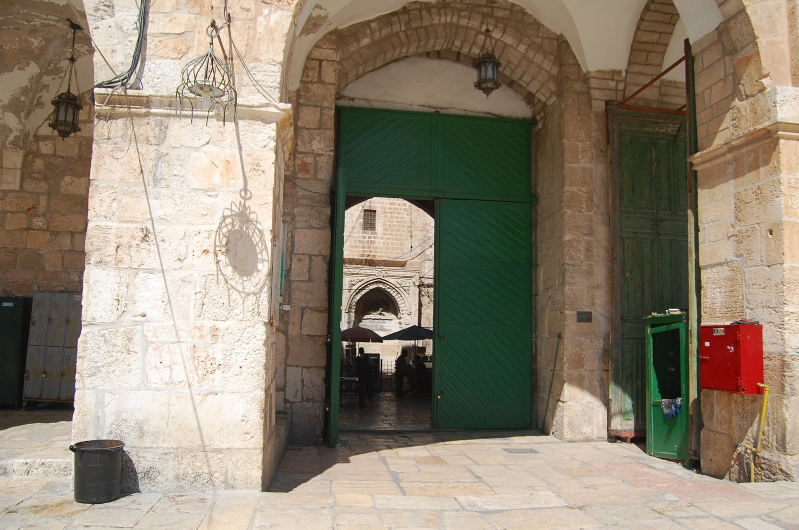 Al-Aqsa Mosque